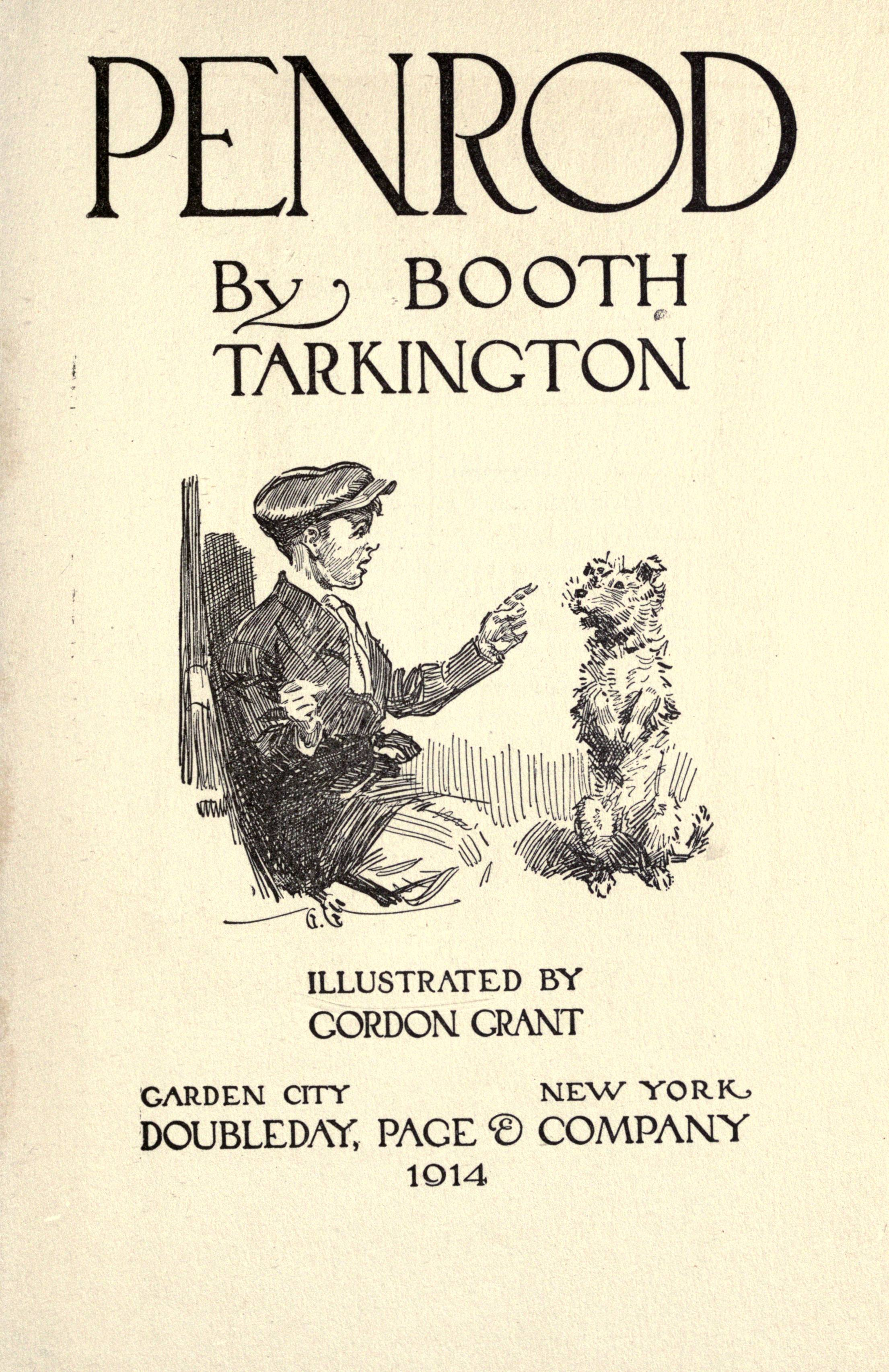 Cover page for Penrod by Booth Tarkington, depicting Penrod Schofield and his dog Duke.